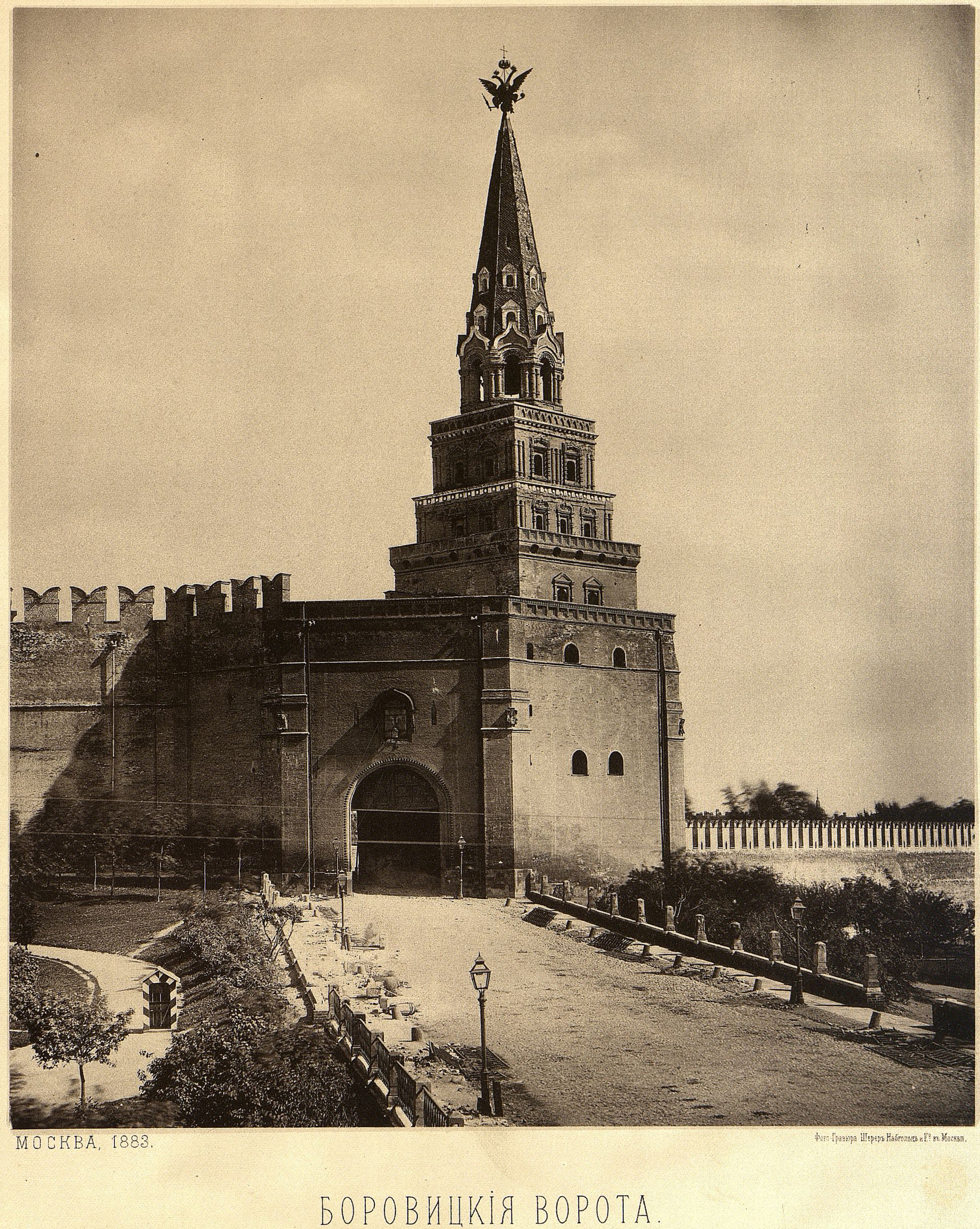 Plate 28: Borovitskie gates (of Moscow Kremlin).